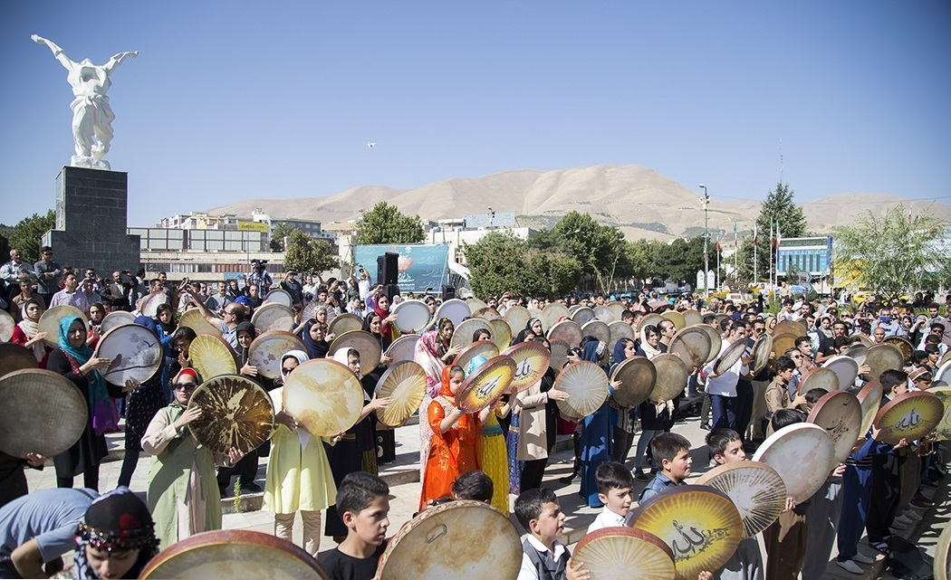 «دف نوازی» در كردستان